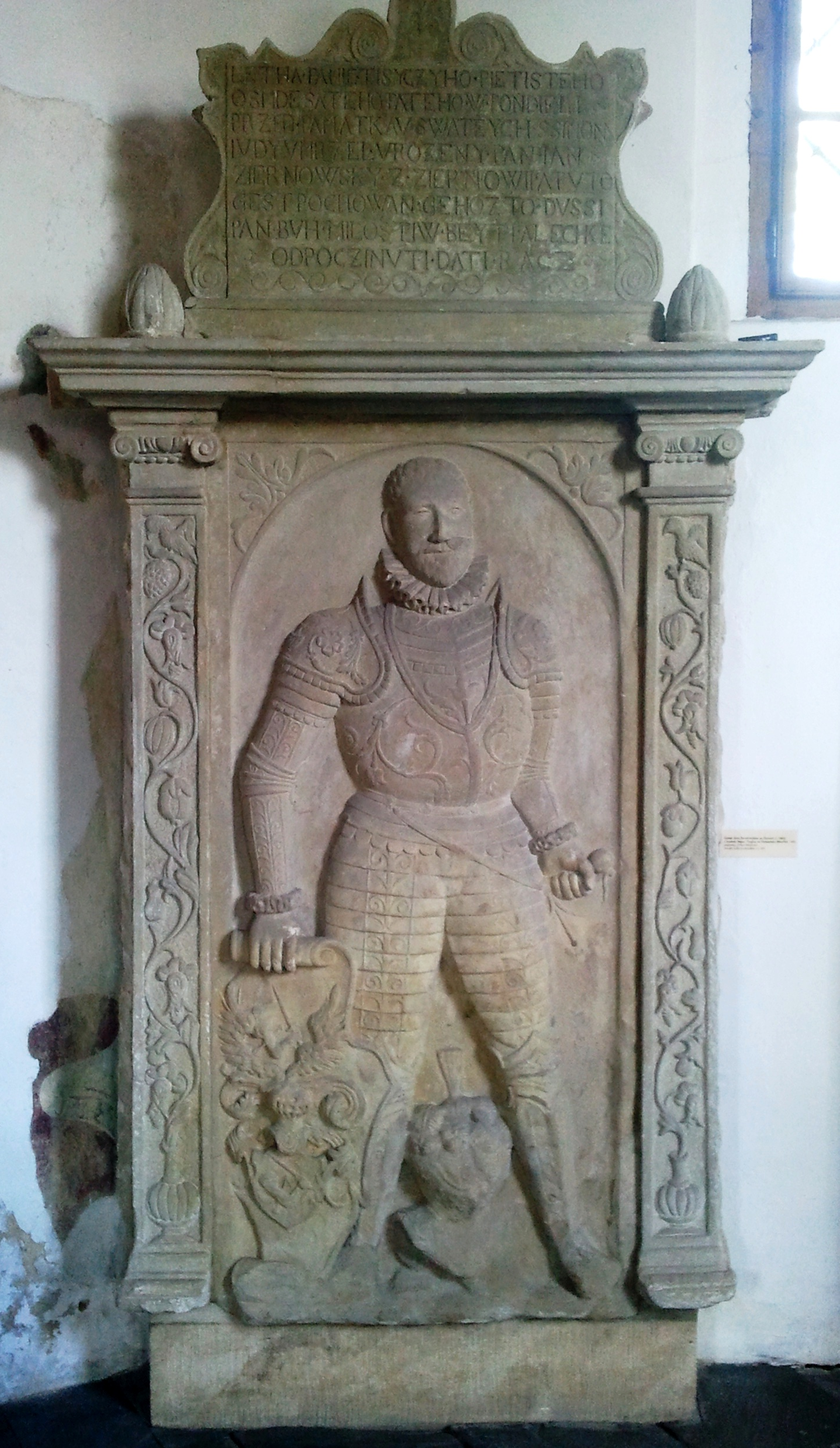 Gravestone of Jan Žernovský z Žernovic, 1585.